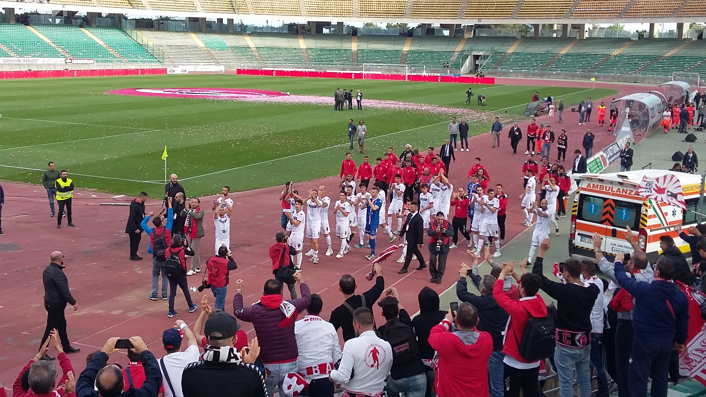 La fotografia, scattata dall'anello inferiore della curva nord dello stadio San Nicola di Bari, il pomeriggio del 28 aprile 2019 (dopo la fine dell'incontro Bari-Rotonda, valevole per la penultima giornata di Serie D - girone I), ritrae la squadra della S.S.C. Bari con il presidente della stessa, Luigi De Laurentiis (a sinistra, che applaude in abito color avano), che festeggiano con i tifosi l'avvenuta promozione nella Serie C professionistica.